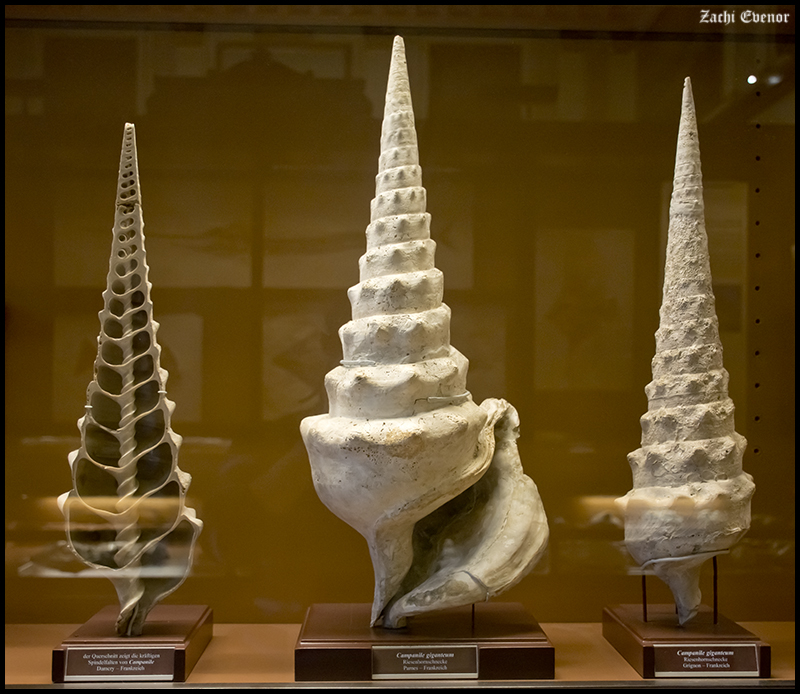 Vienna Natural History Museum, Austria, 2014 Wien Naturhistorisches Museum, Osterreich, 2014 המוזיאון להיסטוריה של הטבע, וינה, אוסטריה, 2014 This image was created by Zachi Evenor צחי אבנור and is released under Creative Commons CC-BY license. When using this image credit it to Zachi Evenor (in Hebrew for use in Israel: צחי אבנור). Please avoid using these images in an abusive or offensive manner. Please link to the original image on Wikimedia Commons or Flickr if possible. For more free to use images visit Category:Photographs by Zachi Evenor. For non-free images visit Flickr: . Enjoy this image :)